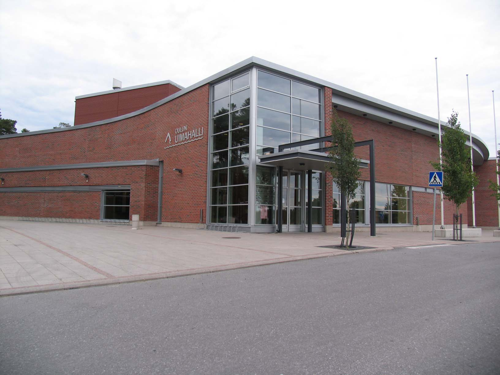 Oulun uimahalli, Raksila, Oulu